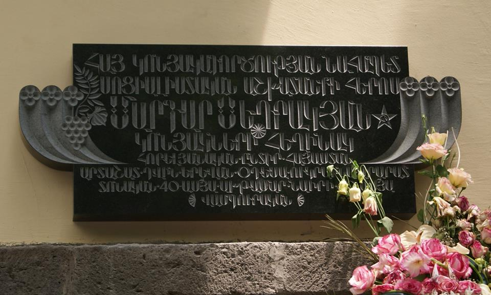 Margar Sedrakyan's Plaque, Yerevan